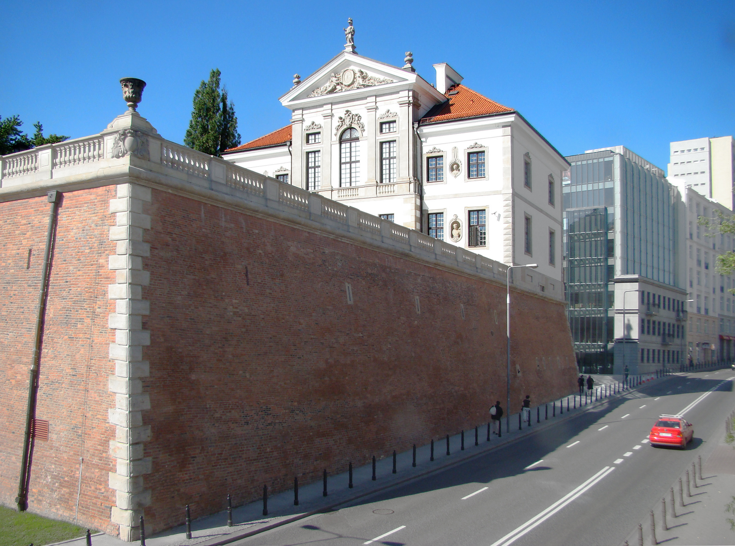 Ostrogski Palace